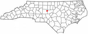 Category:North Carolina Dot Maps